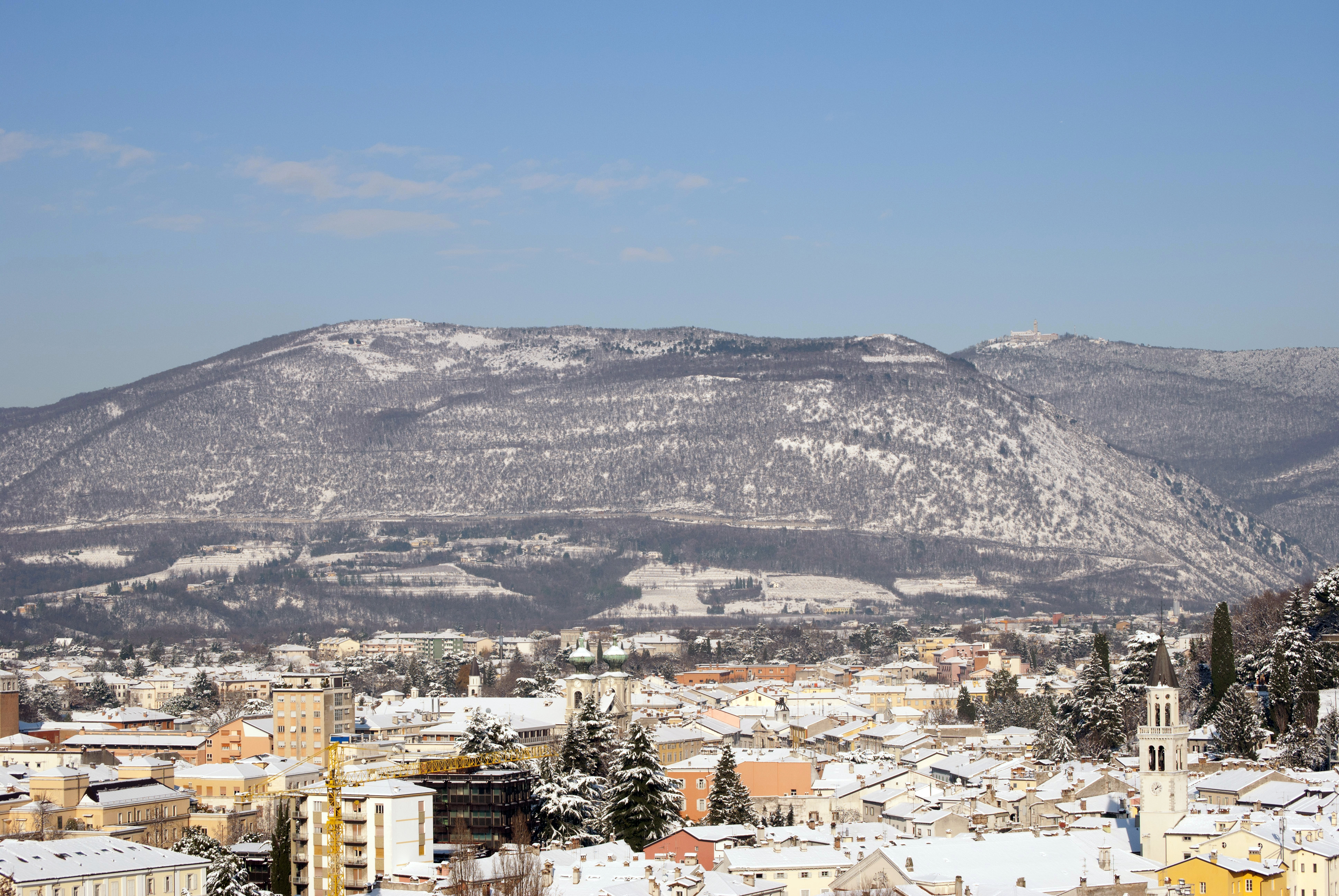 a part of Sabotino with snow